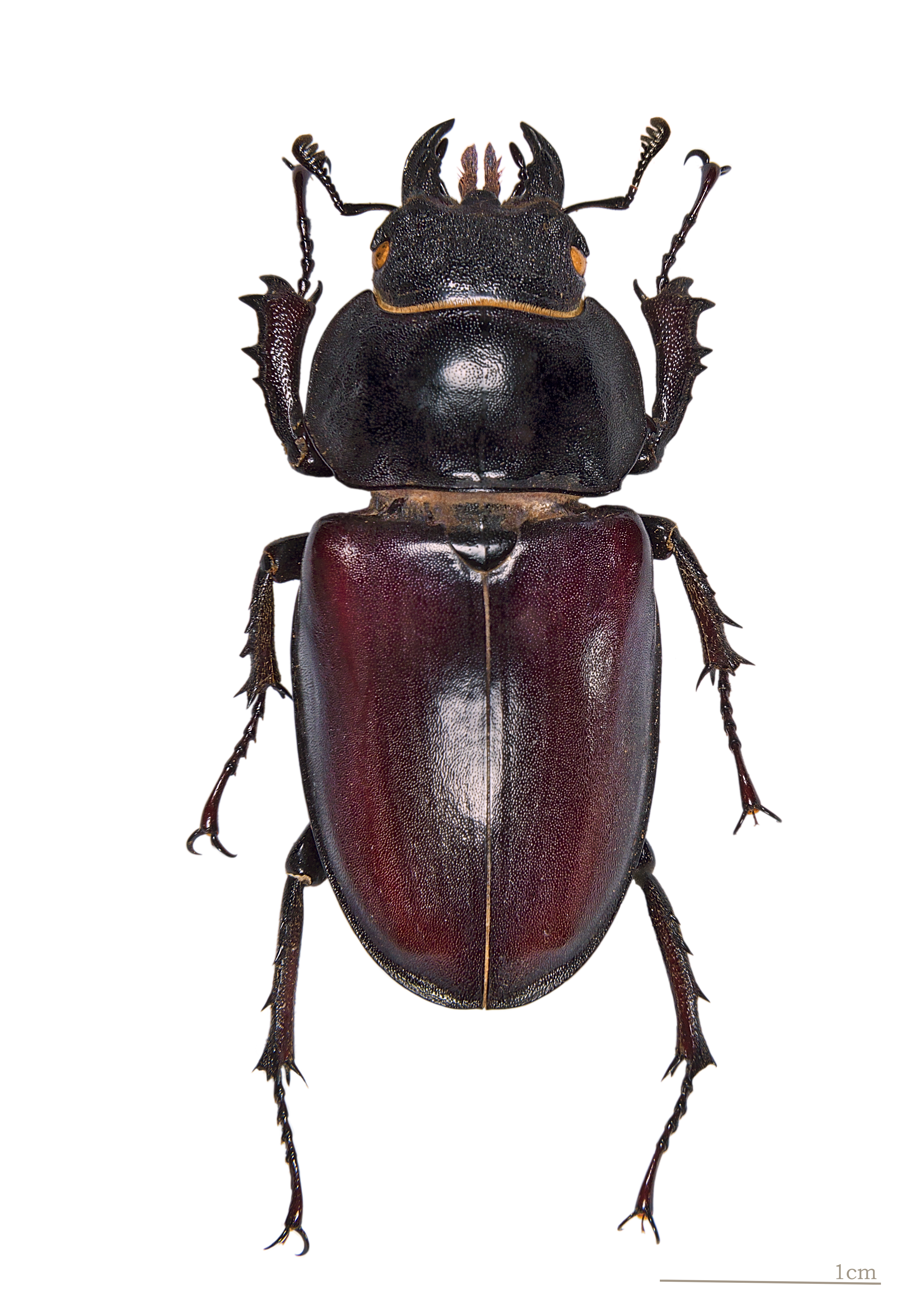 Stag beetle, Dorsal side